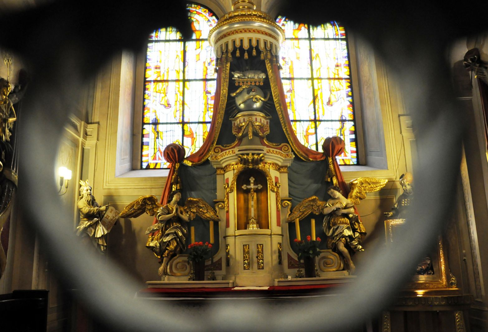 Interior of the Gniezno Cathedral, Corpus Christi Chapel. Altar.